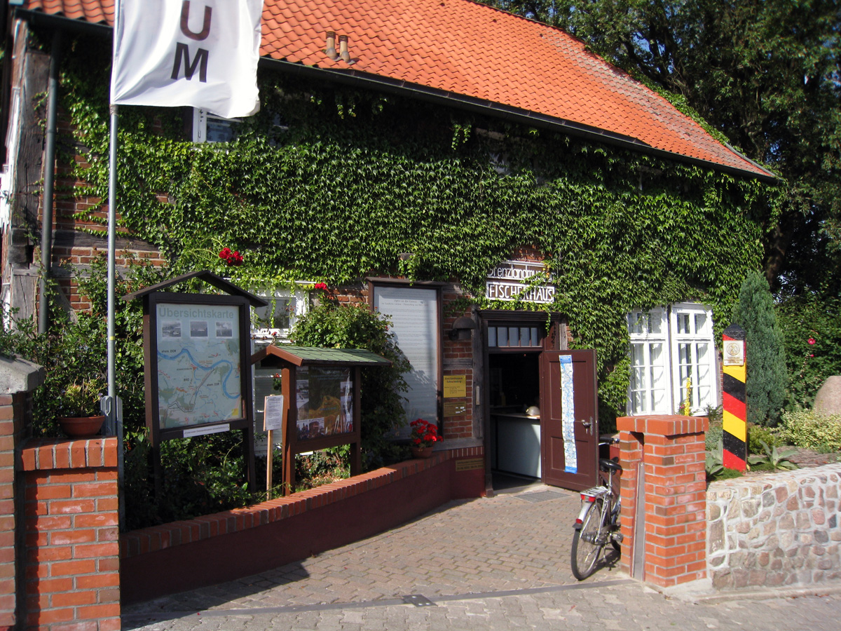 Exterior of the Grenzlandmuseum Schnackenburg, Lower Saxony